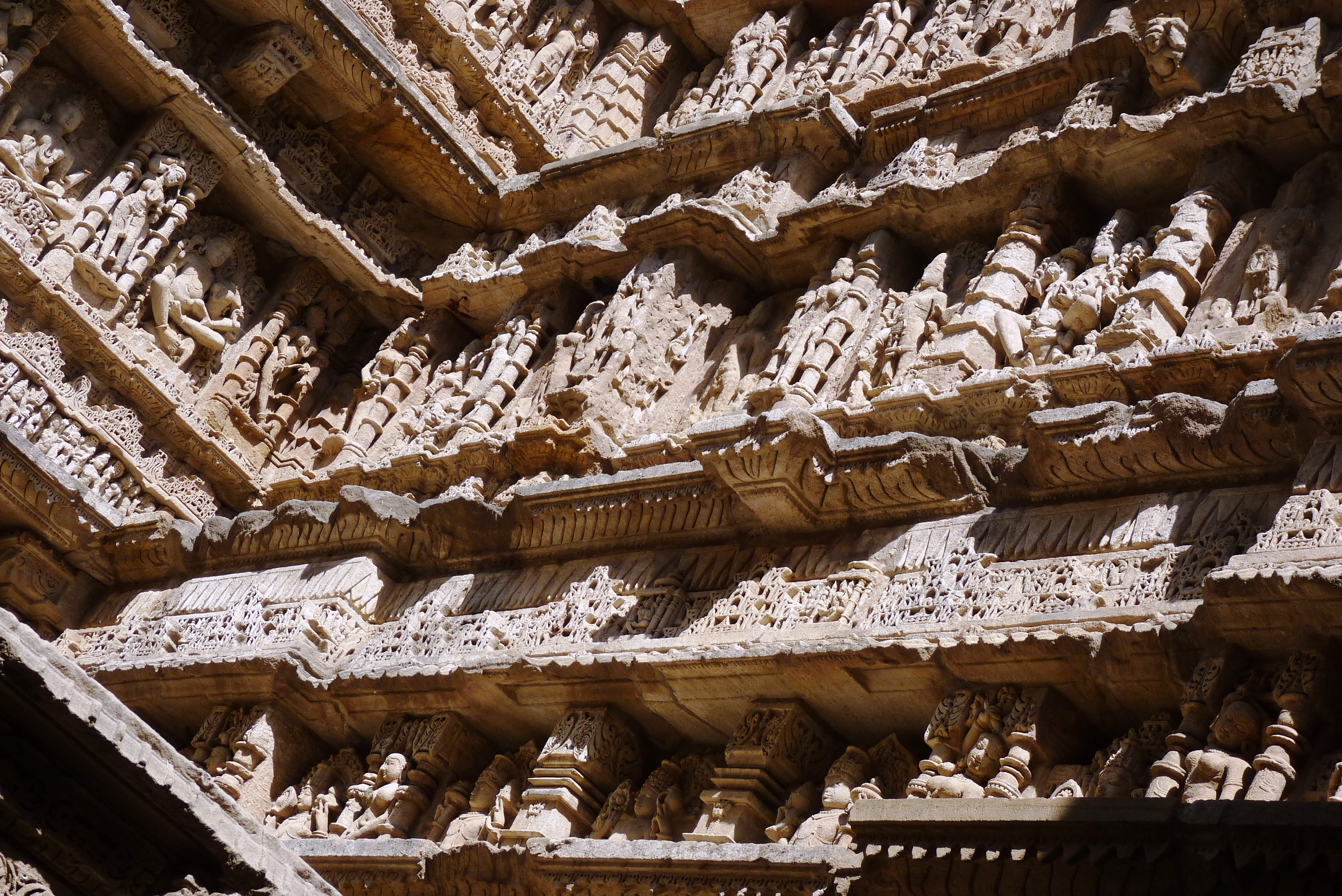 Rani-ki-vav